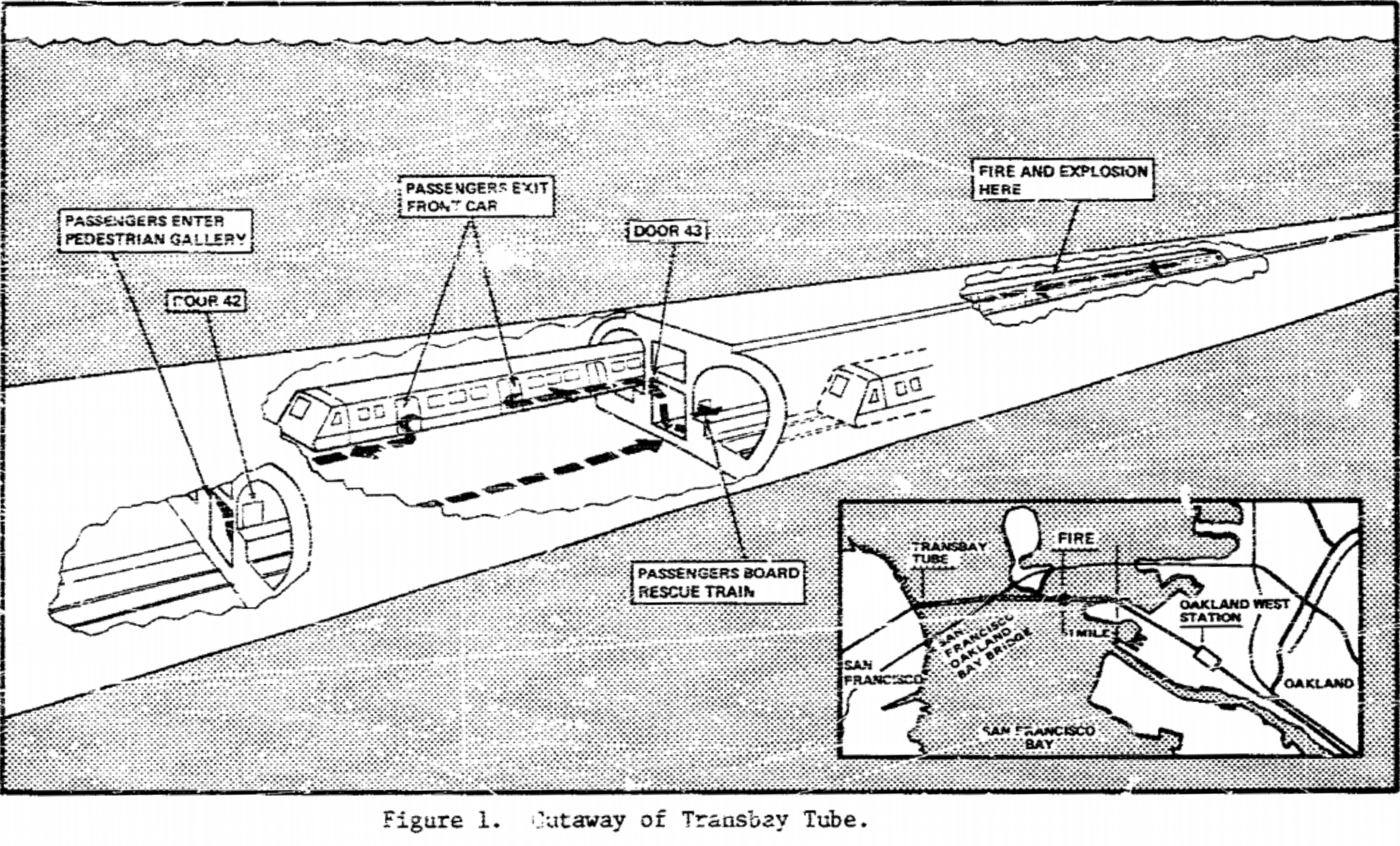 Figure 1 from the NTSB investigation into the January 1979 BART Transbay Tube fire.